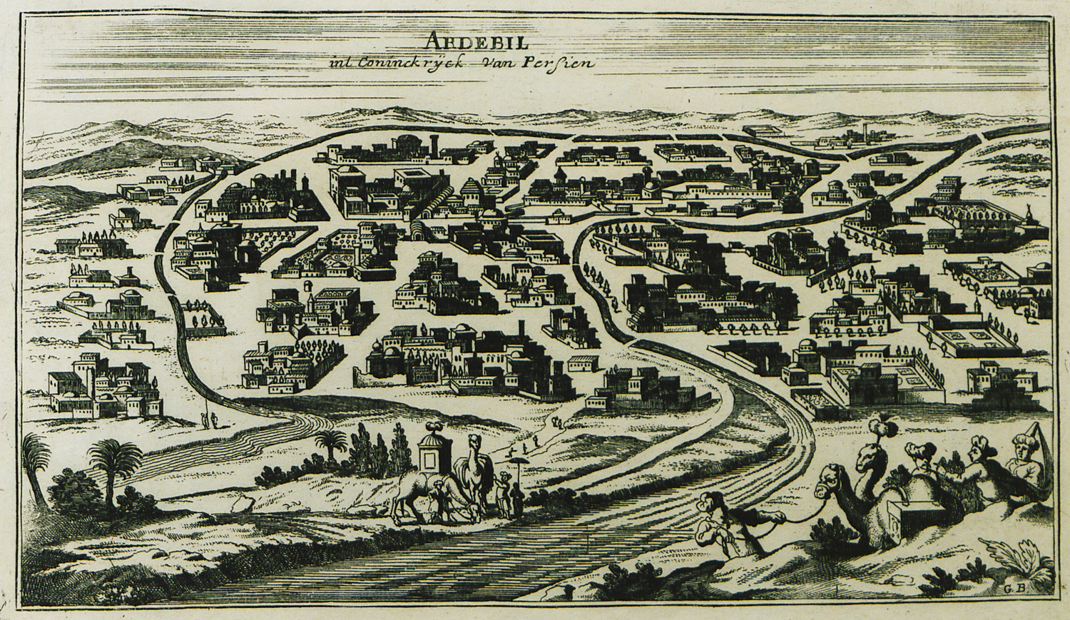 Jacob Peeters. Description des principales villes, havres et isles du golfe de Venise du coté oriental. Comme aussi des villes et forteresses de la Moree, et quelques places de la Grèce, Antwerp, Sur le marché des vieux Souliers, 1690.